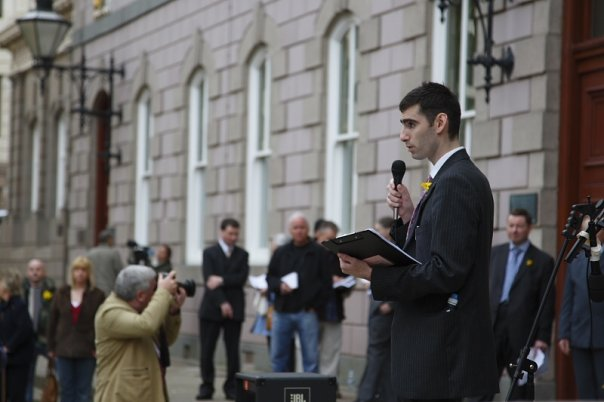 Time4Change Rally. March 2008